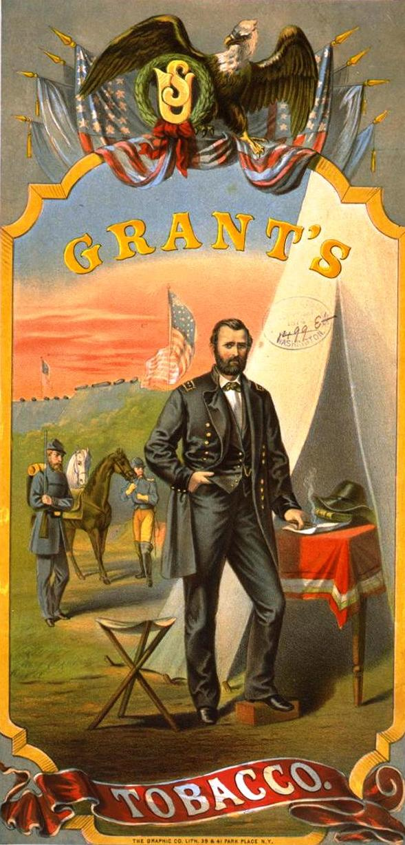 Ulysses S. Grant depicted on the cover of Grant's Tobacco.